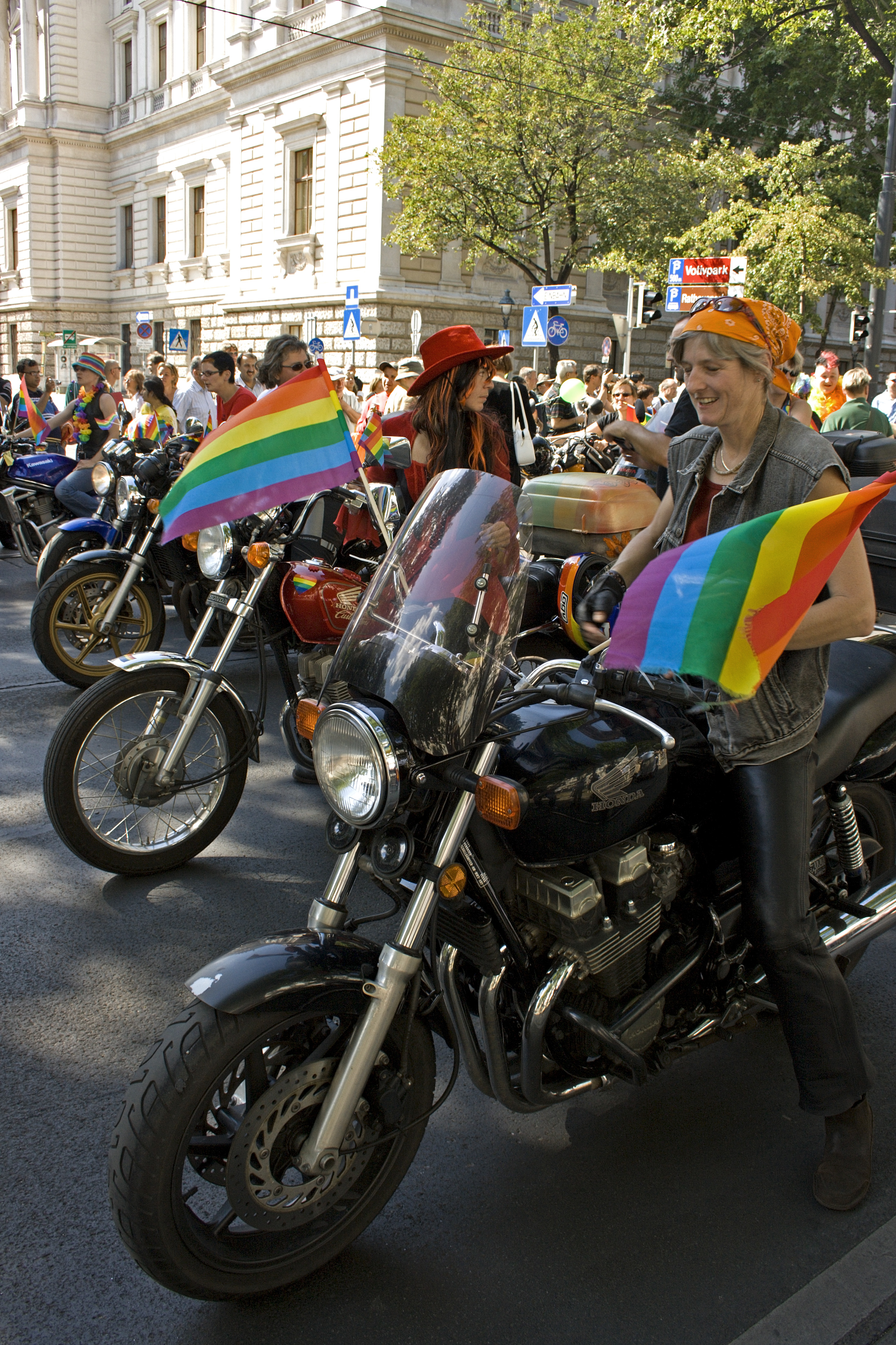 Regenbogenparade 2007 - Rainbow Warriors